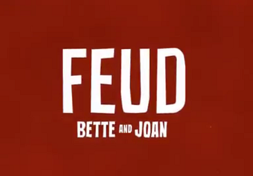 Title card of Feud: Bette and Joan from February 2017 teaser trailer.